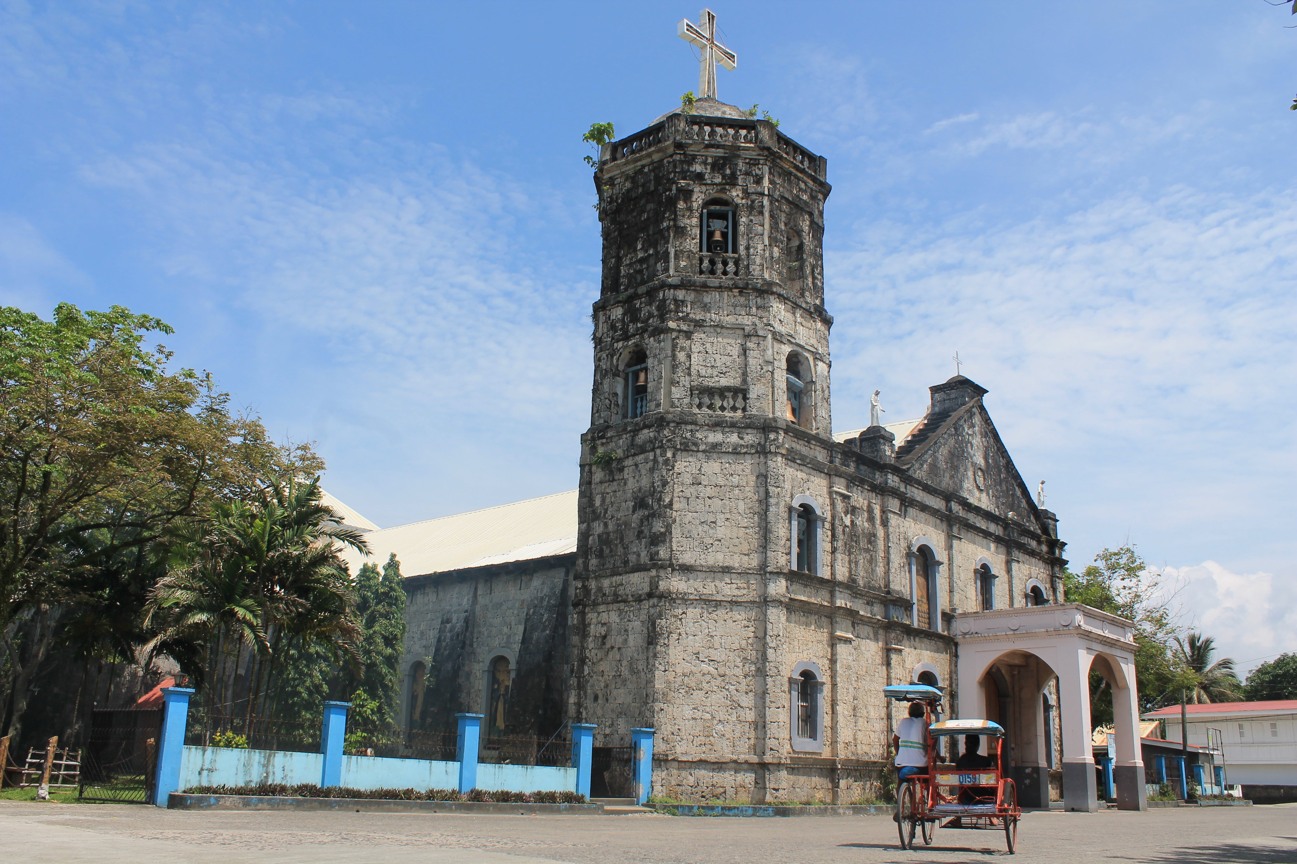 The facade of the Immaculate Conception Church, Baybay City, Leyte in the Philippines